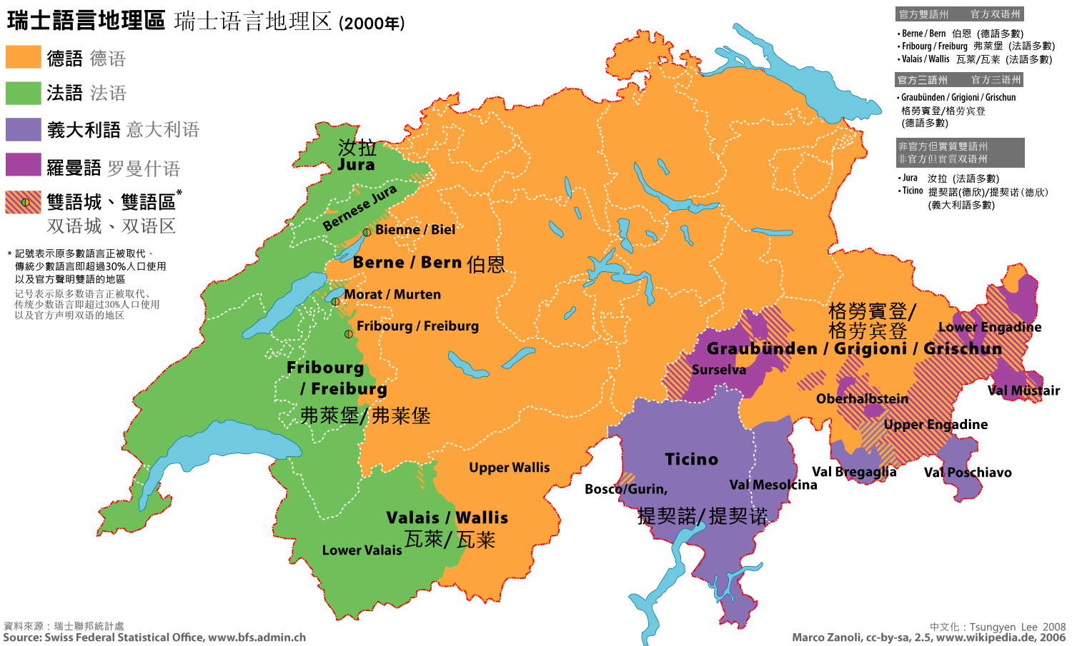 Map of the geographical distribution of the official languages of Switzerland (2000)